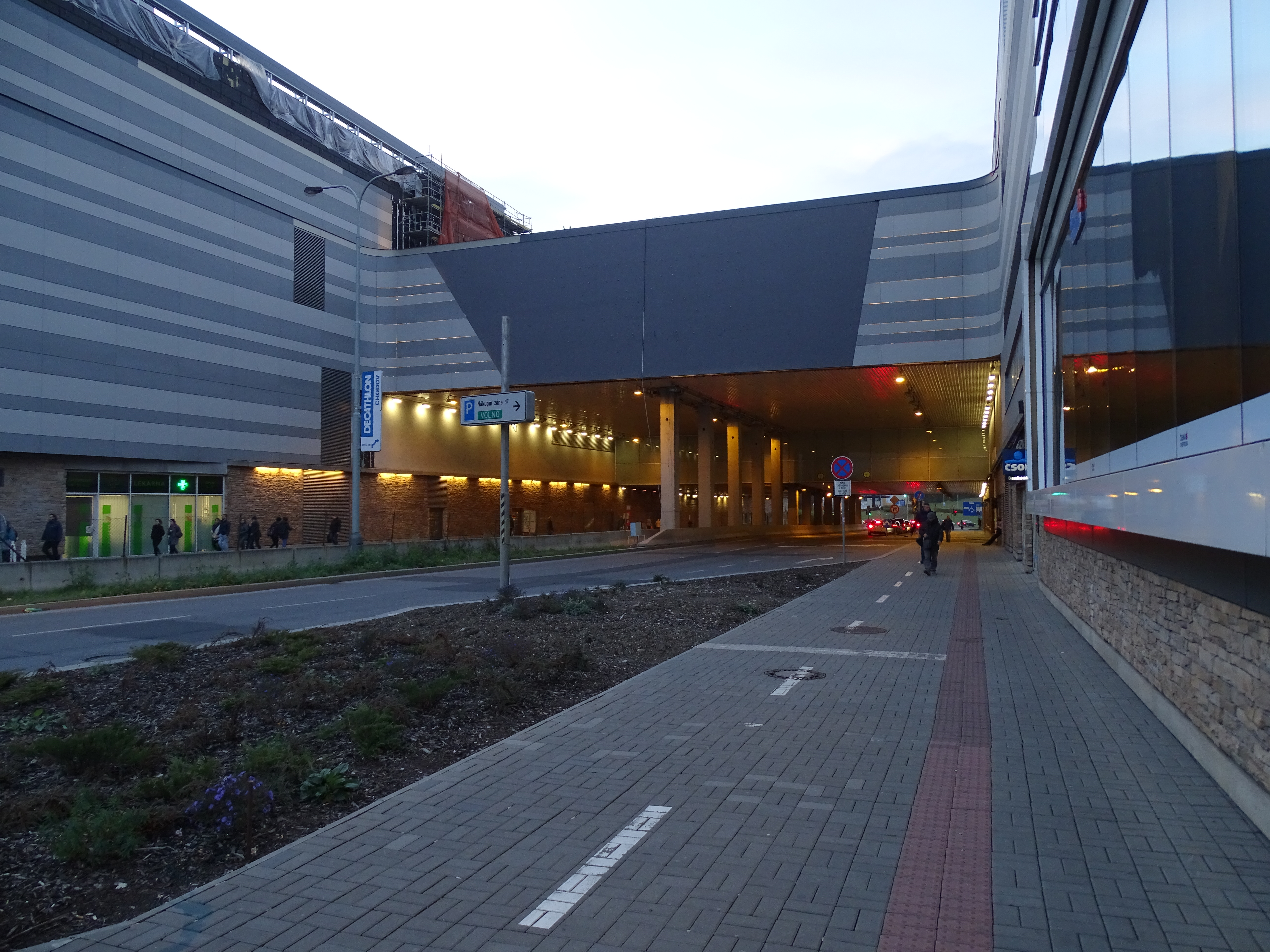 Prague-Chodov, Czechia, Roztylská, Centrum Chodov.